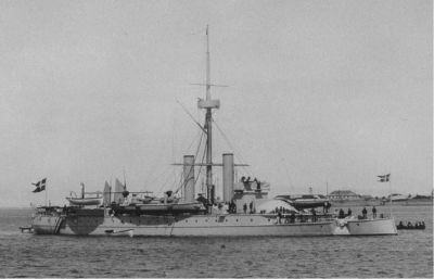 Danish Ironclad Tordenskjold, launched 1880, serving 1882-1908.